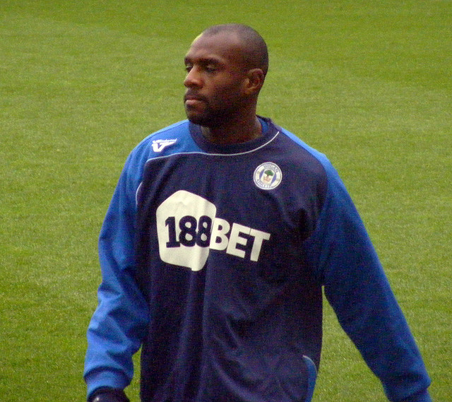 Emmerson Boyce - Wigan Athletic v Birmingham City, 5th December 2009